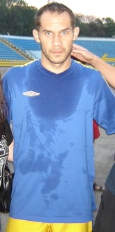 Serbian footballer Albert Nad on training practice in FC Rostov.